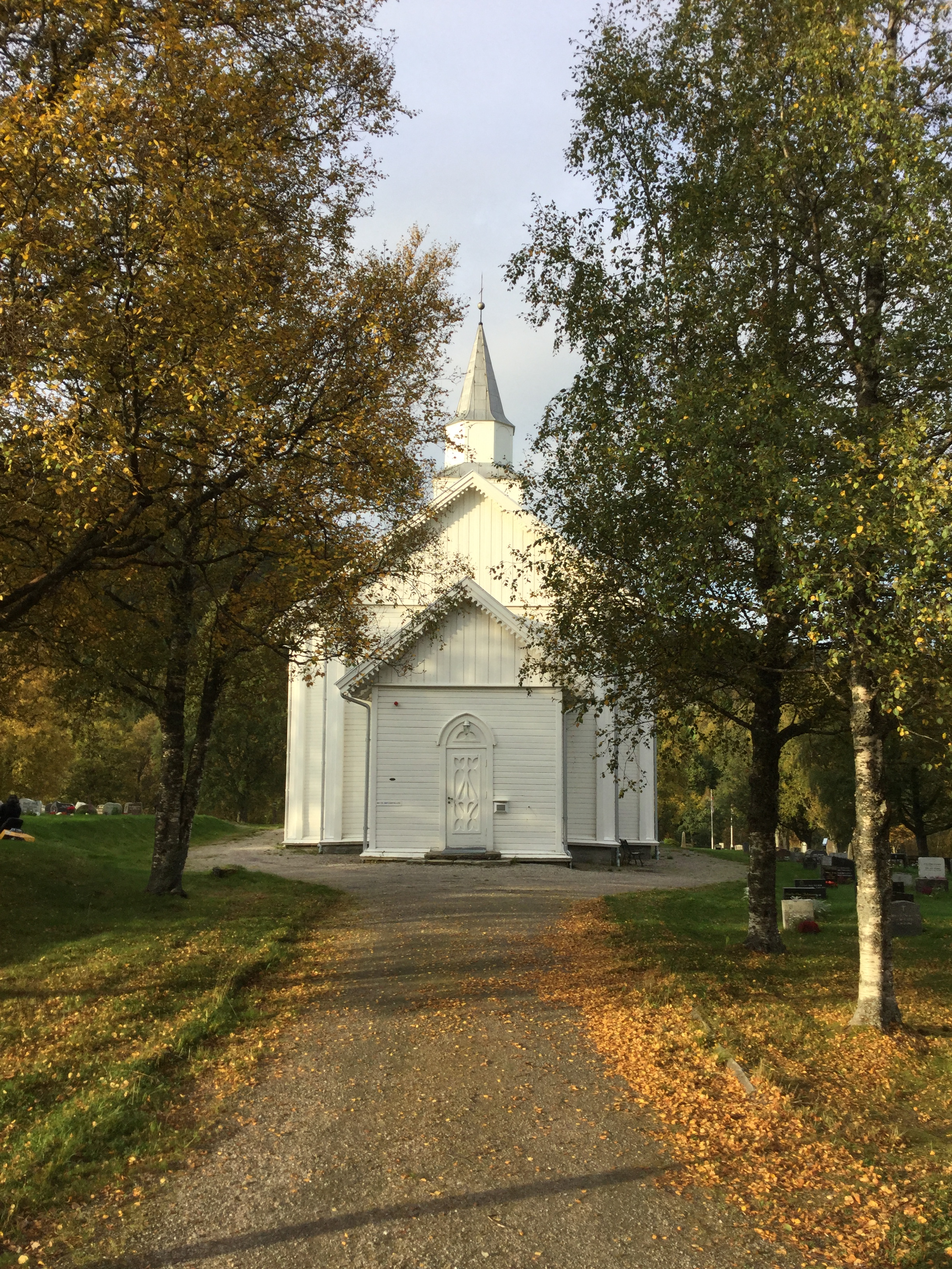 Vemundvik Church in Namsos, Nord-Trøndelag, Norway